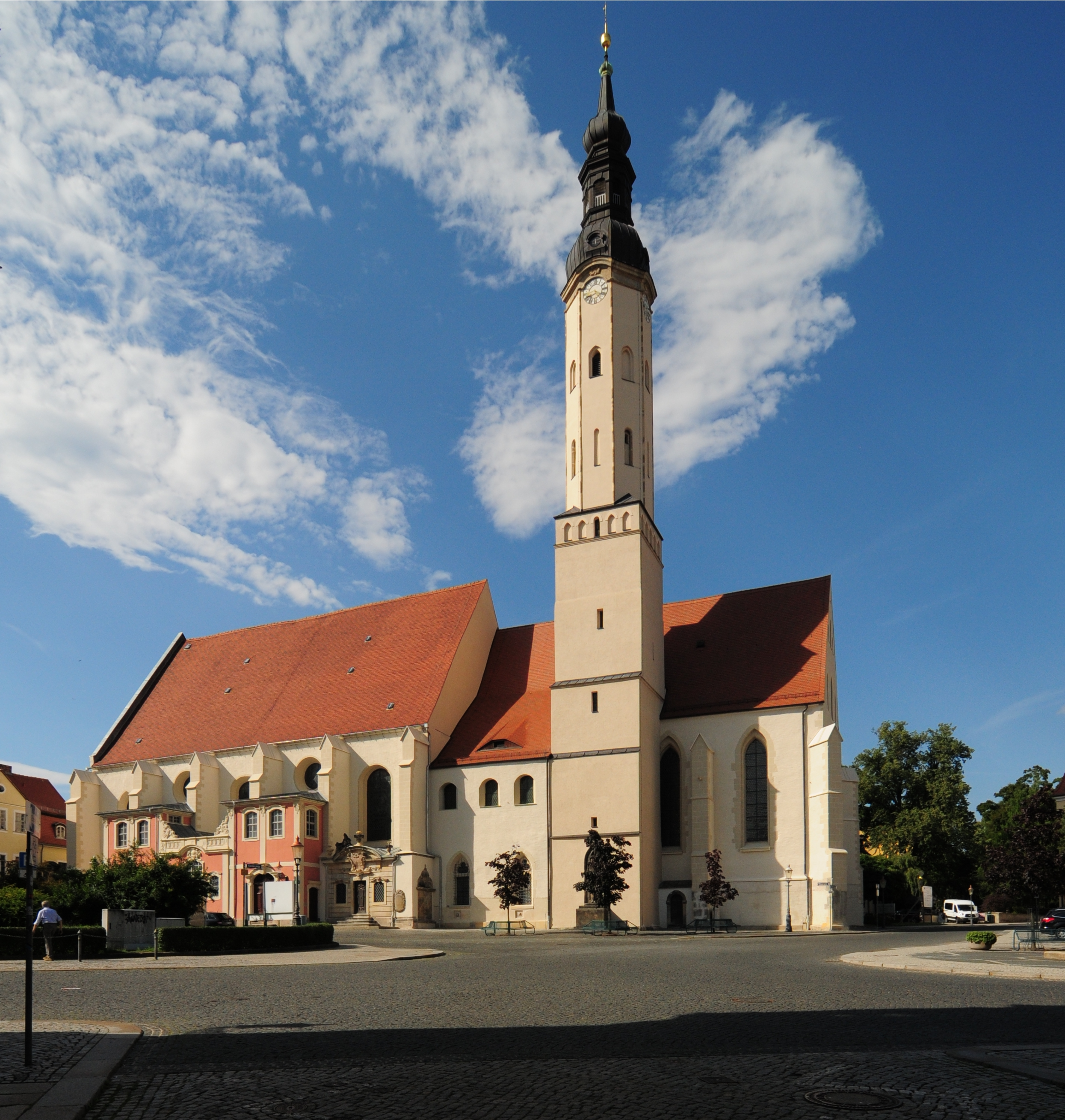 Zittau, Church St Peter and Paul of the former Franciscan monastery (district Landkreis Görlitz, Free State of Saxony, Germany)